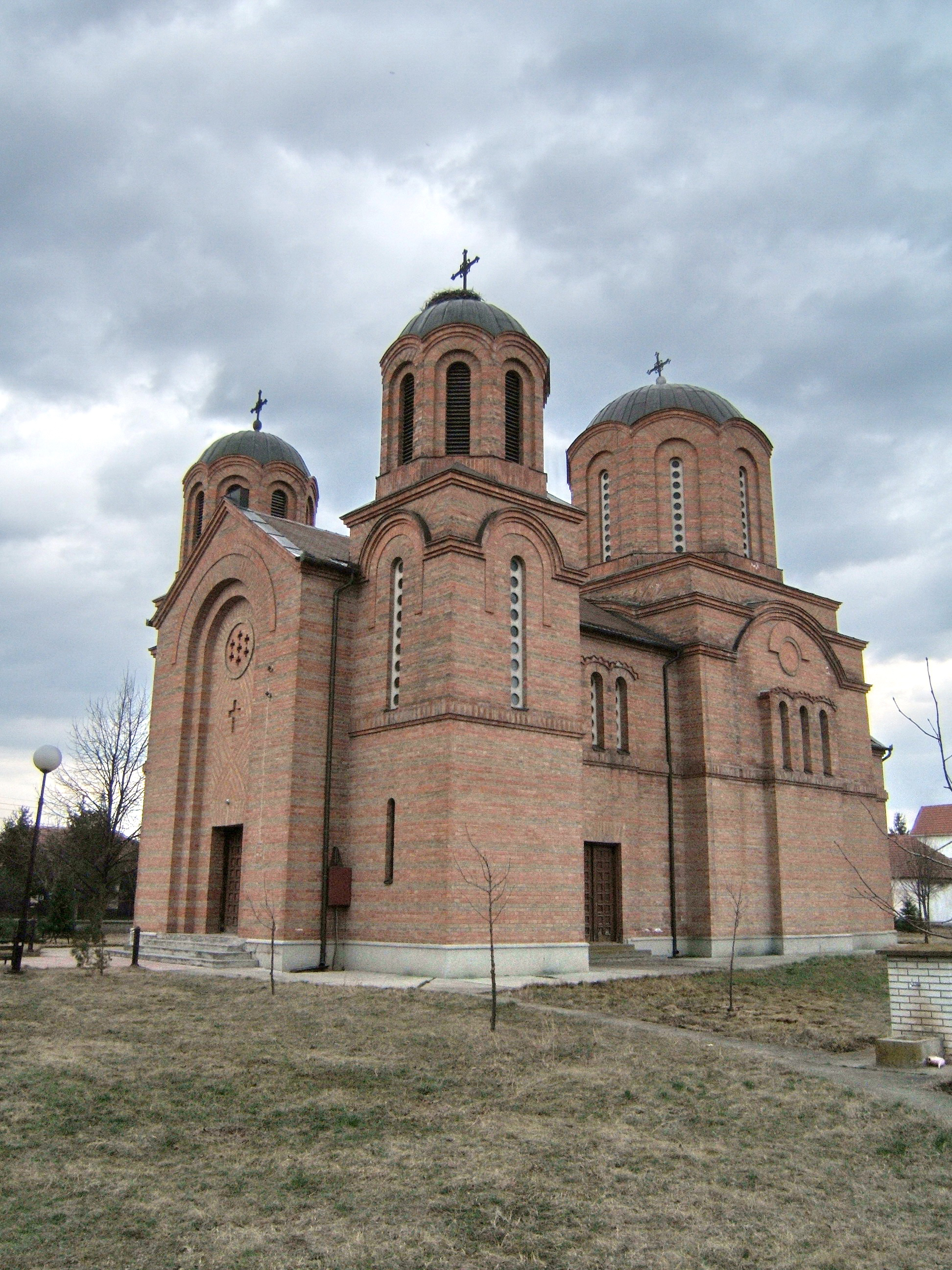 Serbian Orthodox church in Stajićevo - southwest